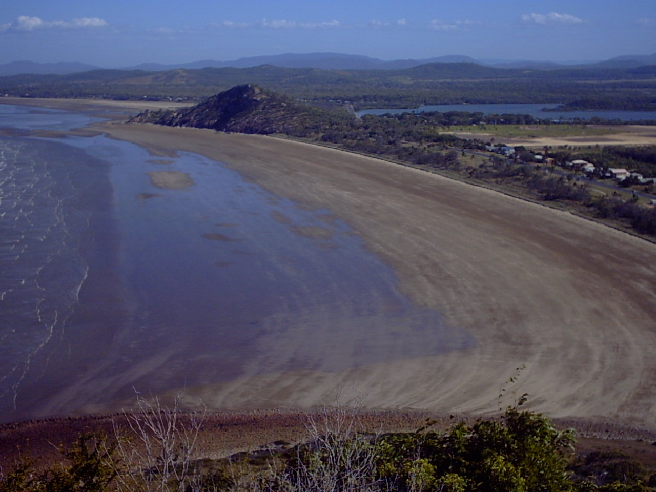 Mulambin Beach with Causeway Lake in the background, 2009. The tide is out. Taken from Bluff Point looking south.